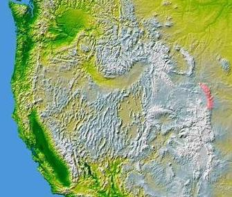 The Laramie Mountains in Wyoming are shown highlighted on a map of the western United States. Based on original public domain image courtesy of NASA. © 2004 Matthew Trump.